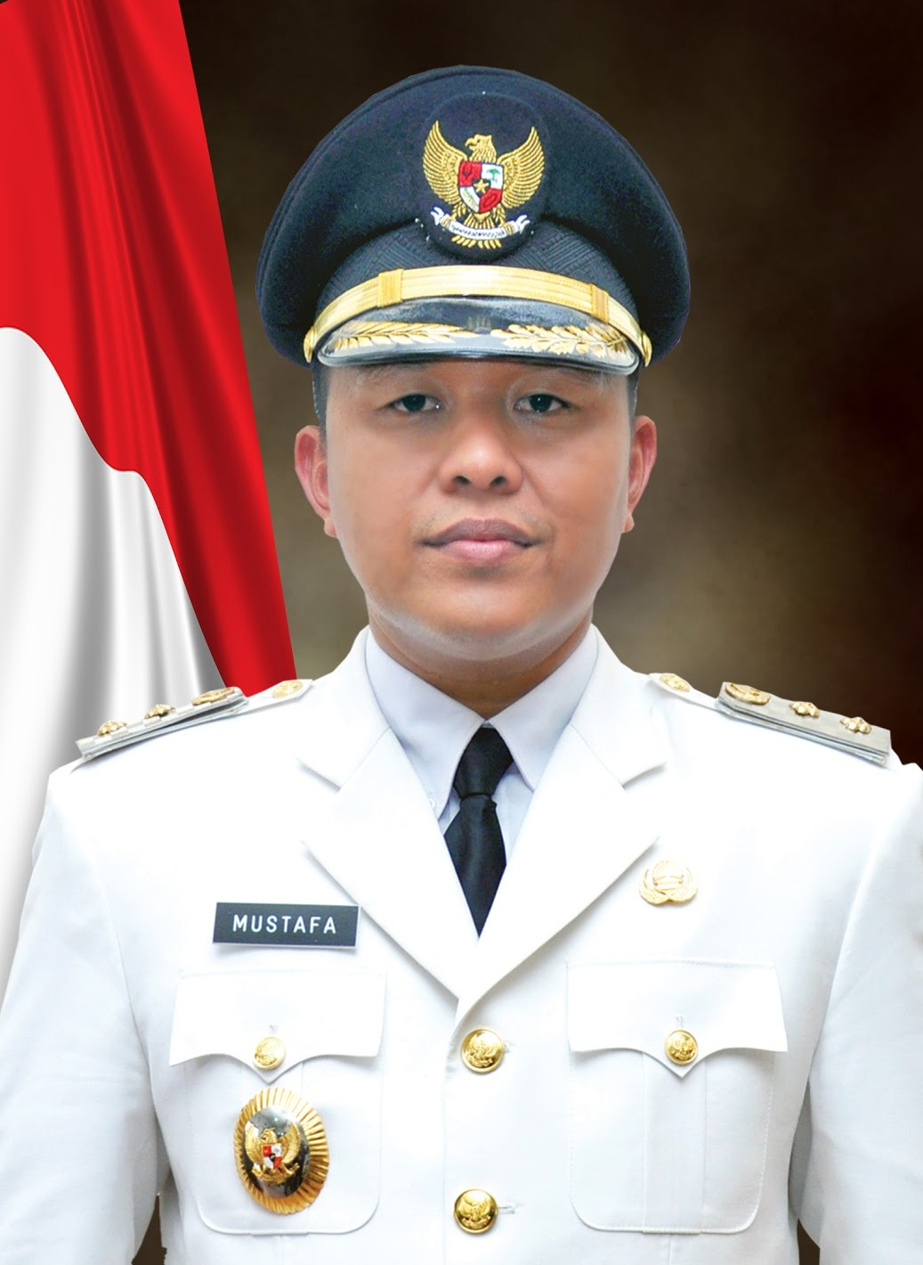 Mustafa, deputy regent of Central Lampung (2010-2015) and regent (2016-). Also participant in the 2018 Lampung elections